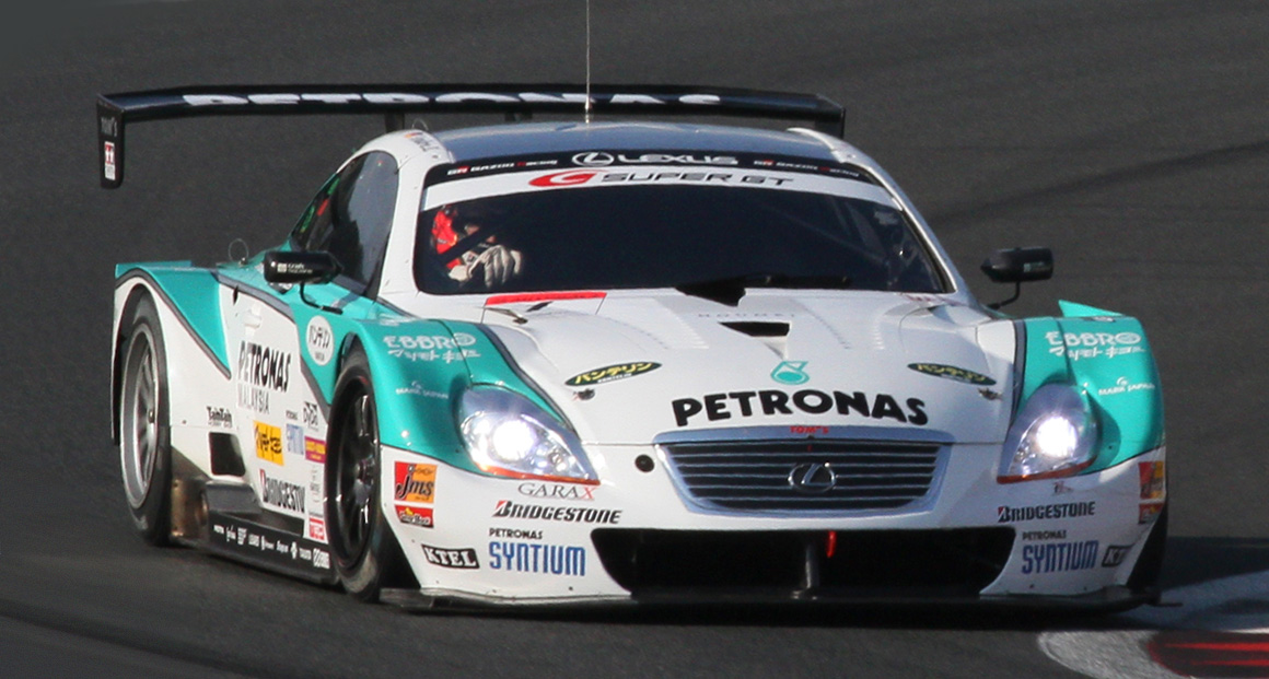 Super GT 2010 Rd.3 Fuji GT 400km: André Lotterer (Lexus Team Petronas TOM'S) driving the Petronas TOM'S SC430 in the 'Super Lap' of the qualify session.